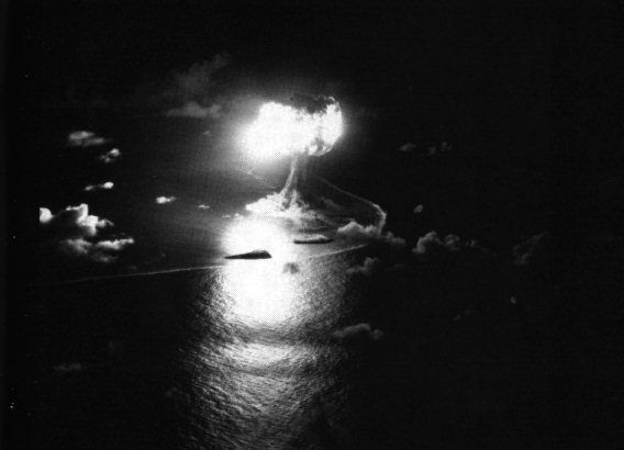 Nuclear weapon test X-Ray (yield 37 kt) on Enewetak Atoll.